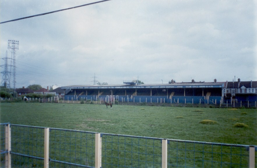 Infamous horse grazing on the pitch at Plough Lane. Gypsies from nearby site off Brickfield Road used the pitch for their horses. The old South stand on Plough Lane was a bit scary as it was made out of wood and smoking was allowed. The commentary position for TV was on top of the roof. I remember John Motson on TV wrapped up like an Eskimo for one game. I've been hunting for these photos for years and just found them amongst some holiday snaps. After Wimbledon stopped playing first team games here and moved to Selhurst Park the ground for reserve games until 1998.